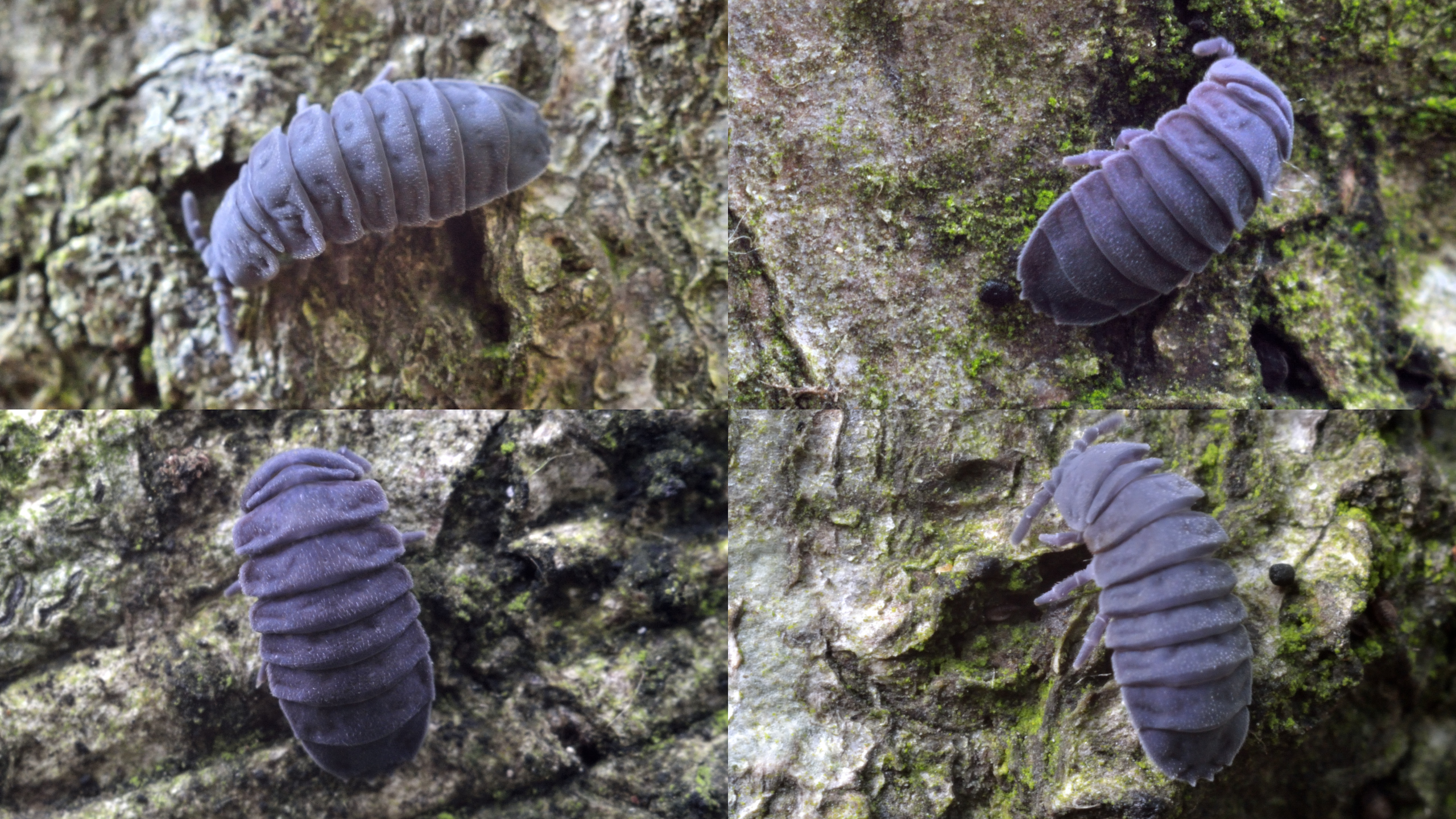 Colony springtails Tetrodontophora bielanensis fed lichen on the trunk of a beech. East slope Couric. Chernivtsi region. Vyzhnytsya district., P. Chereshen'ka. 09.25.2016 around noon.